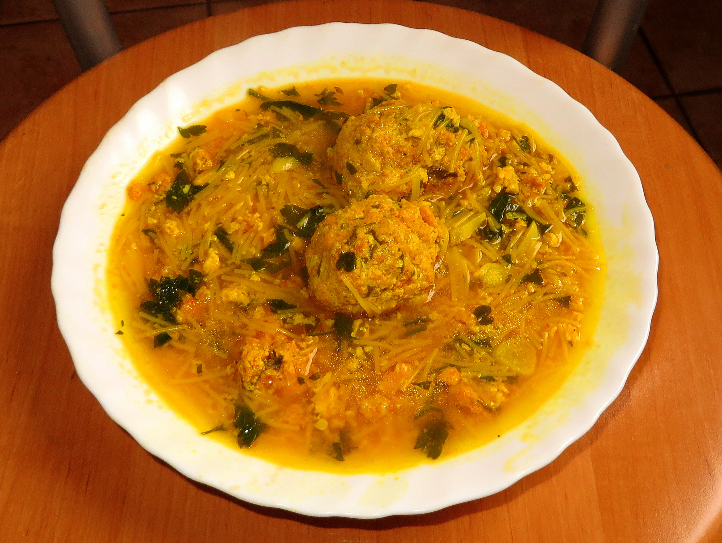 Sopa de cocido